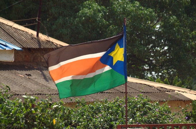 South Sudan's six-color flag, already widely displayed around the capital, will officially replace the Sudanese flag on Saturday.